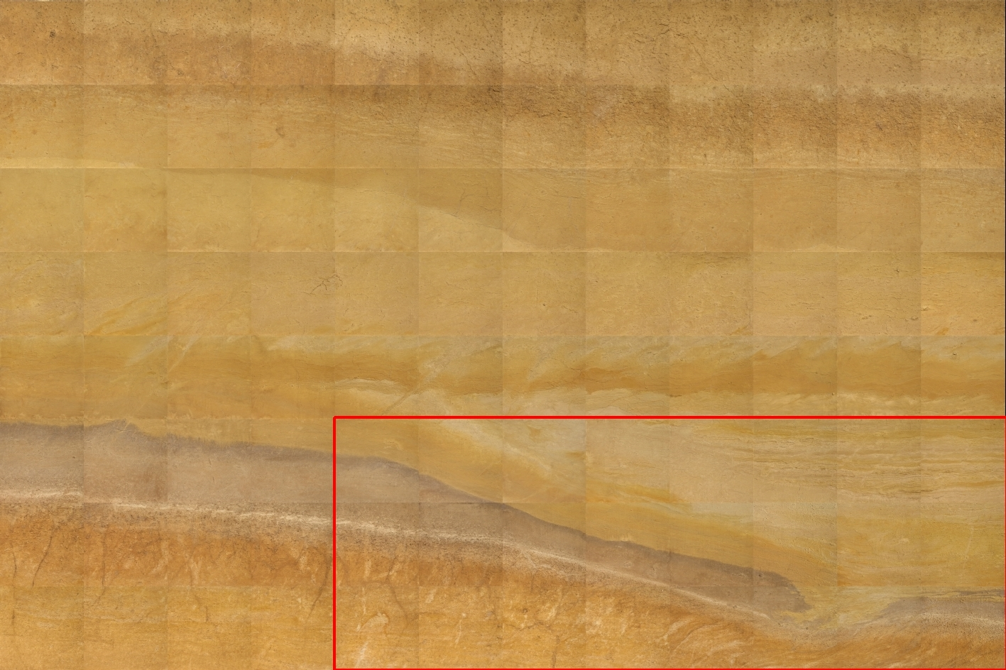 Largest preservated soil profile from Elsbachtal near Garzweiler (open-cast minining of brown coal); red marked: presented at Geological Survey NRW